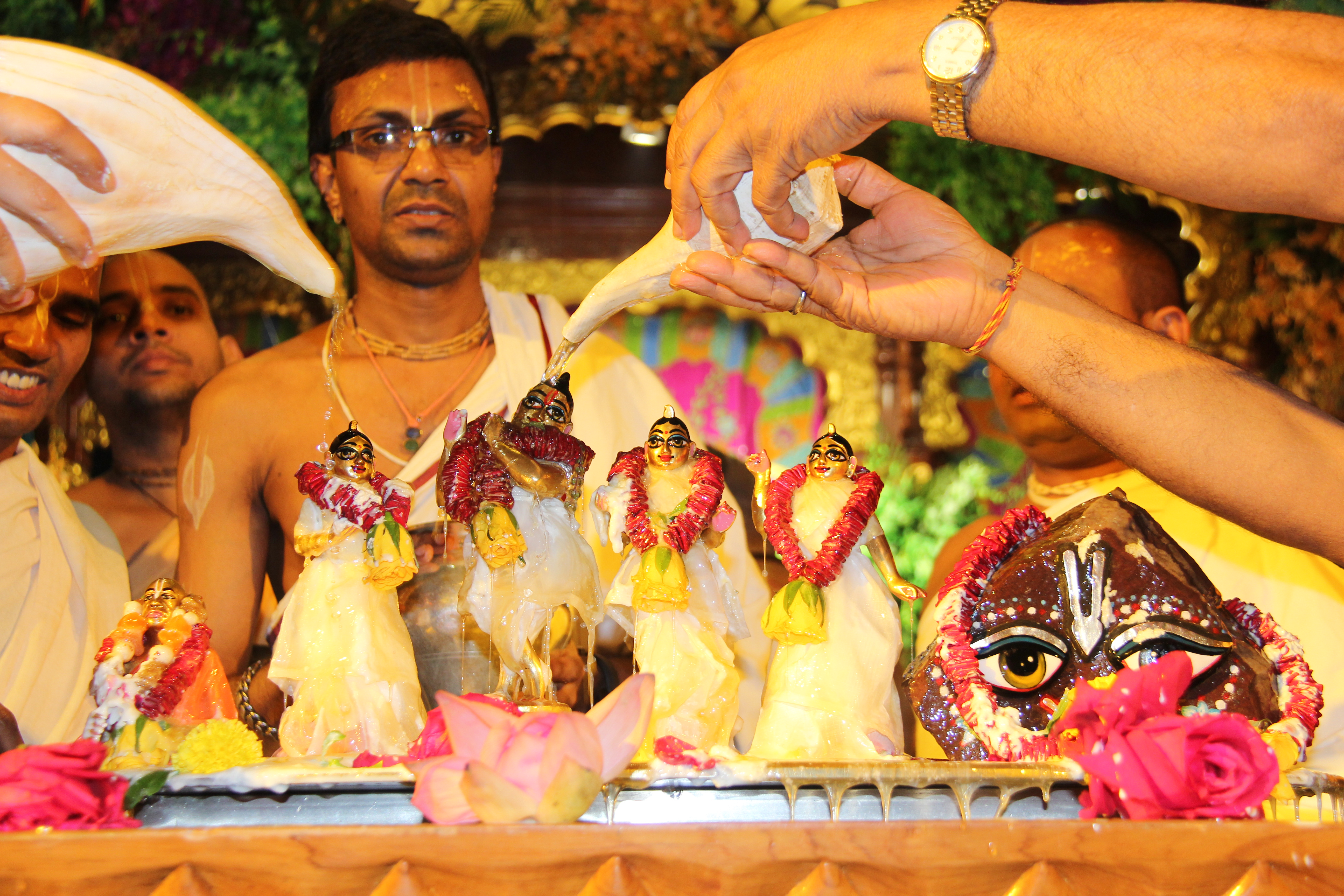 Abhishek Festival